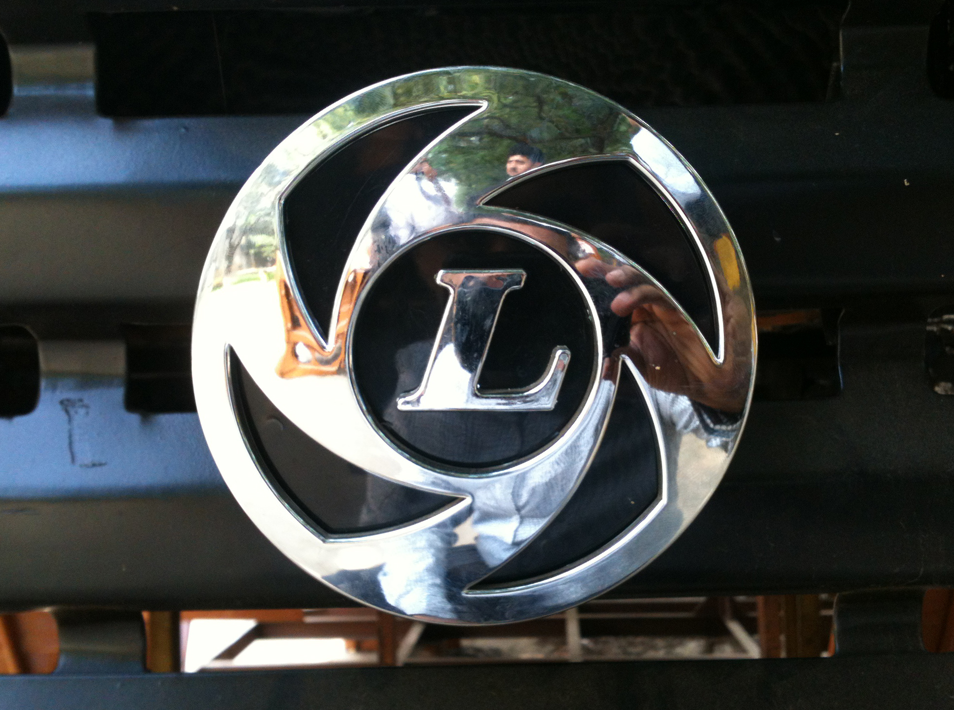 Ashok Leyland Logo